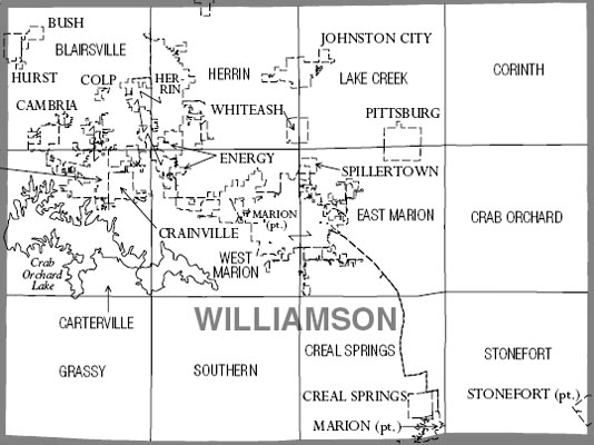 Township map of Williamson County, Illinois